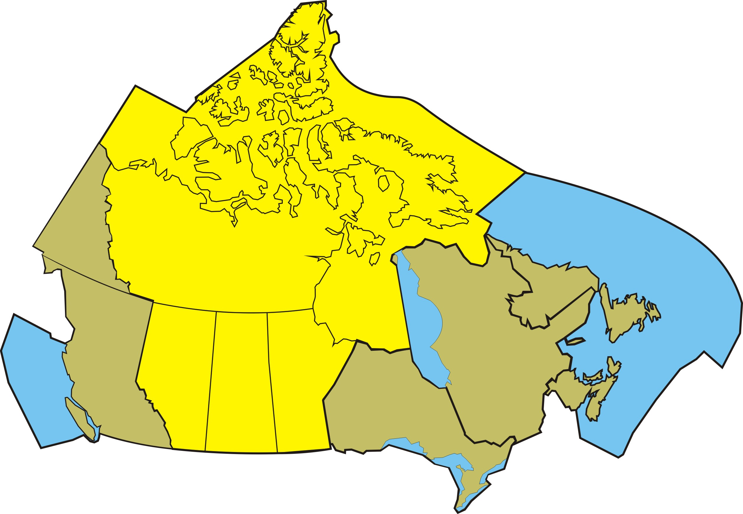 The yellow region shows the area of weather forecasting responsibility for the Prairie and Arctic Storm Prediction Centre (PASPC) of the Meteorological Service of Canada as of 2012. This responsibility includes public and marine forecasts and warnings.